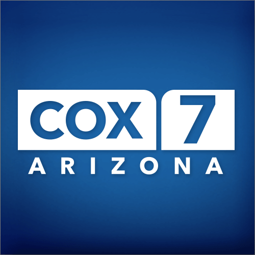 Logo fro Cox7 television station in Arizona.